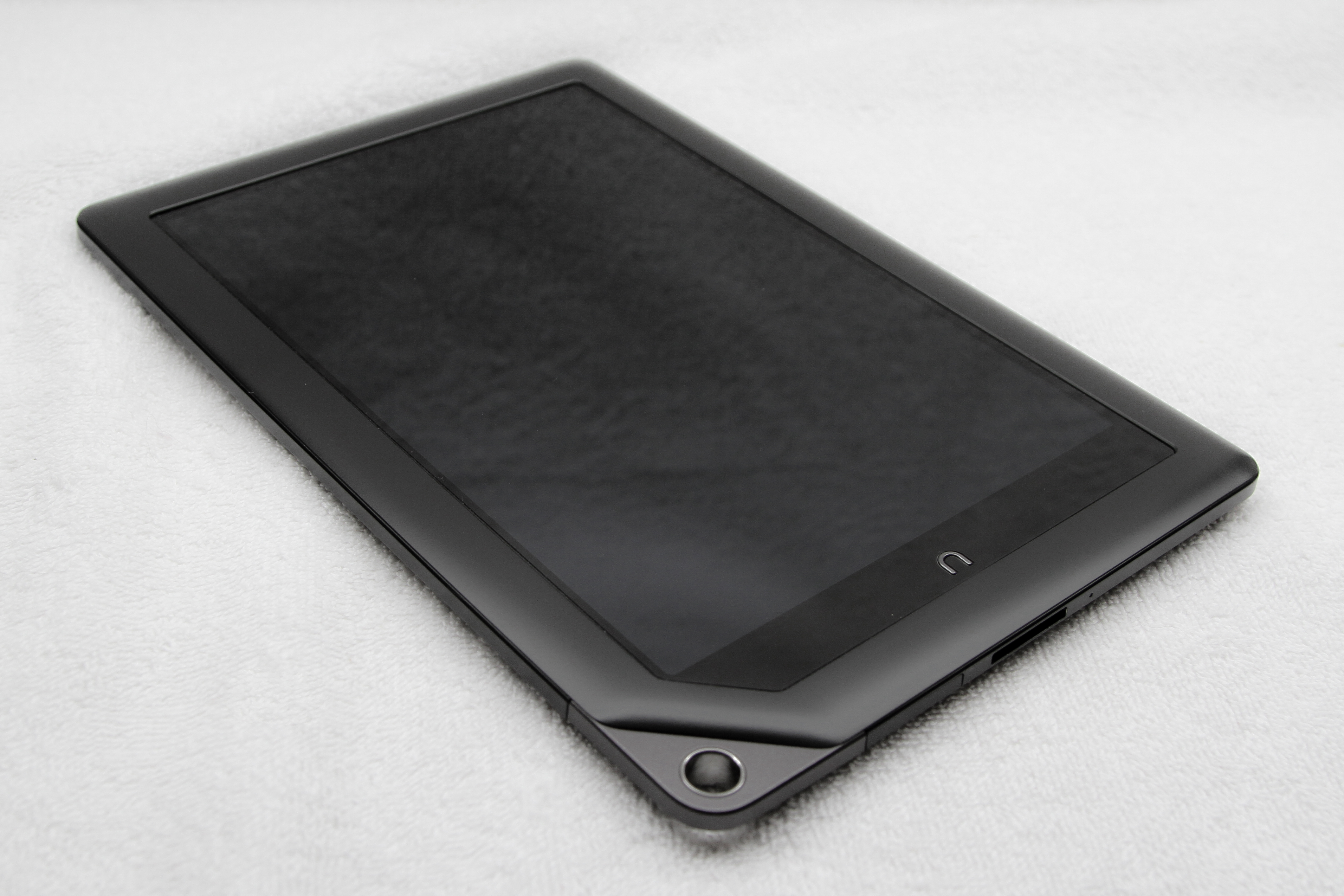 Powered off Nook HD+ Android Tablet